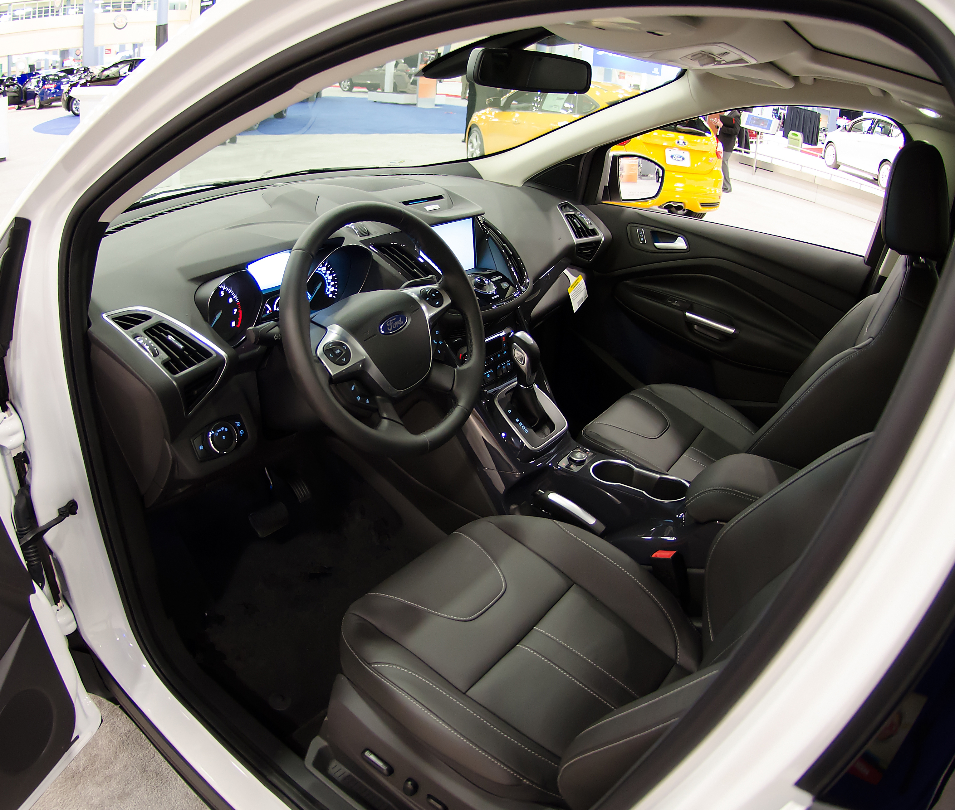 Nice new 2013 Ford Escape with Ecoboost technology at the Miami International Auto Show.